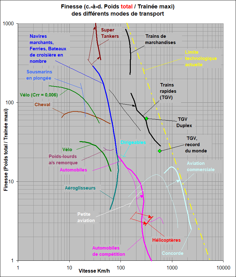 2004 update of the Gabrielli-von Karman diagram giving the "total" L/D ratio of the different modes of transportation. This update was made by the Imperial College's railway Research Group. The total L/D ration of the TGV Duplex and that of two types of bicycles have been added.